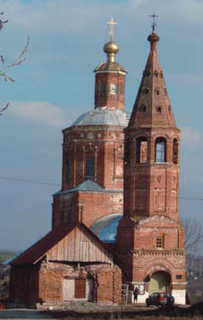 Bogoyavlenskaya and Kazanskaya Churches in Venyov. Former Bogoyavlensky Monastery